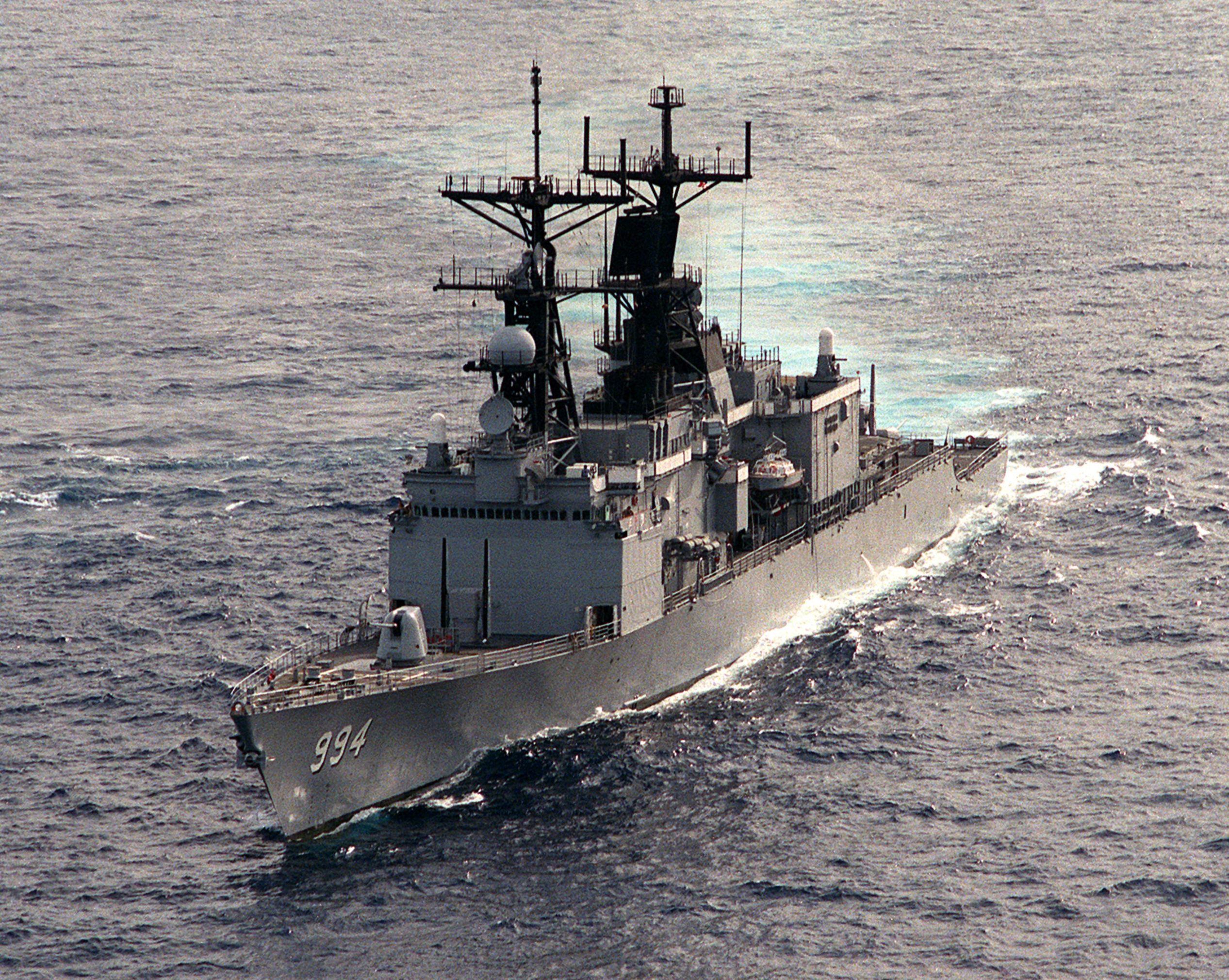 The U.S. Navy guided missile destroyer USS Callaghan (DDG-994) underway.